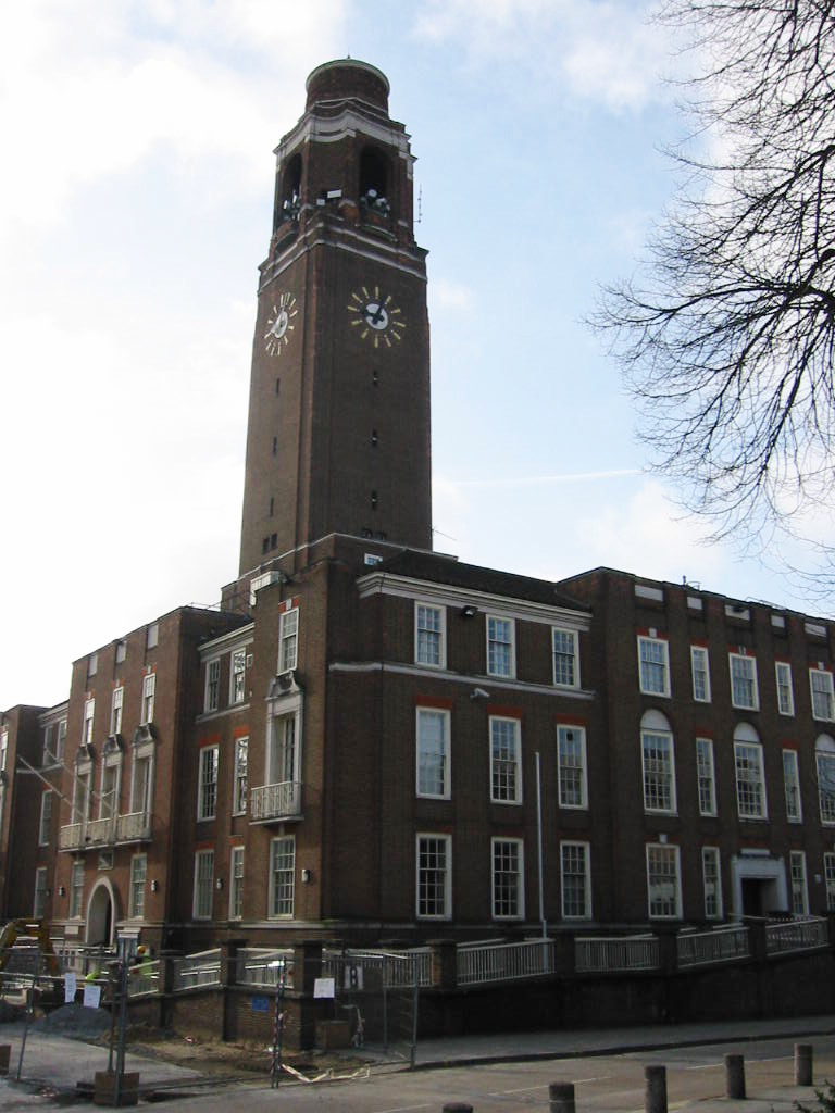 Clocktower of Barking Town Hall, London. I took the picture myself.